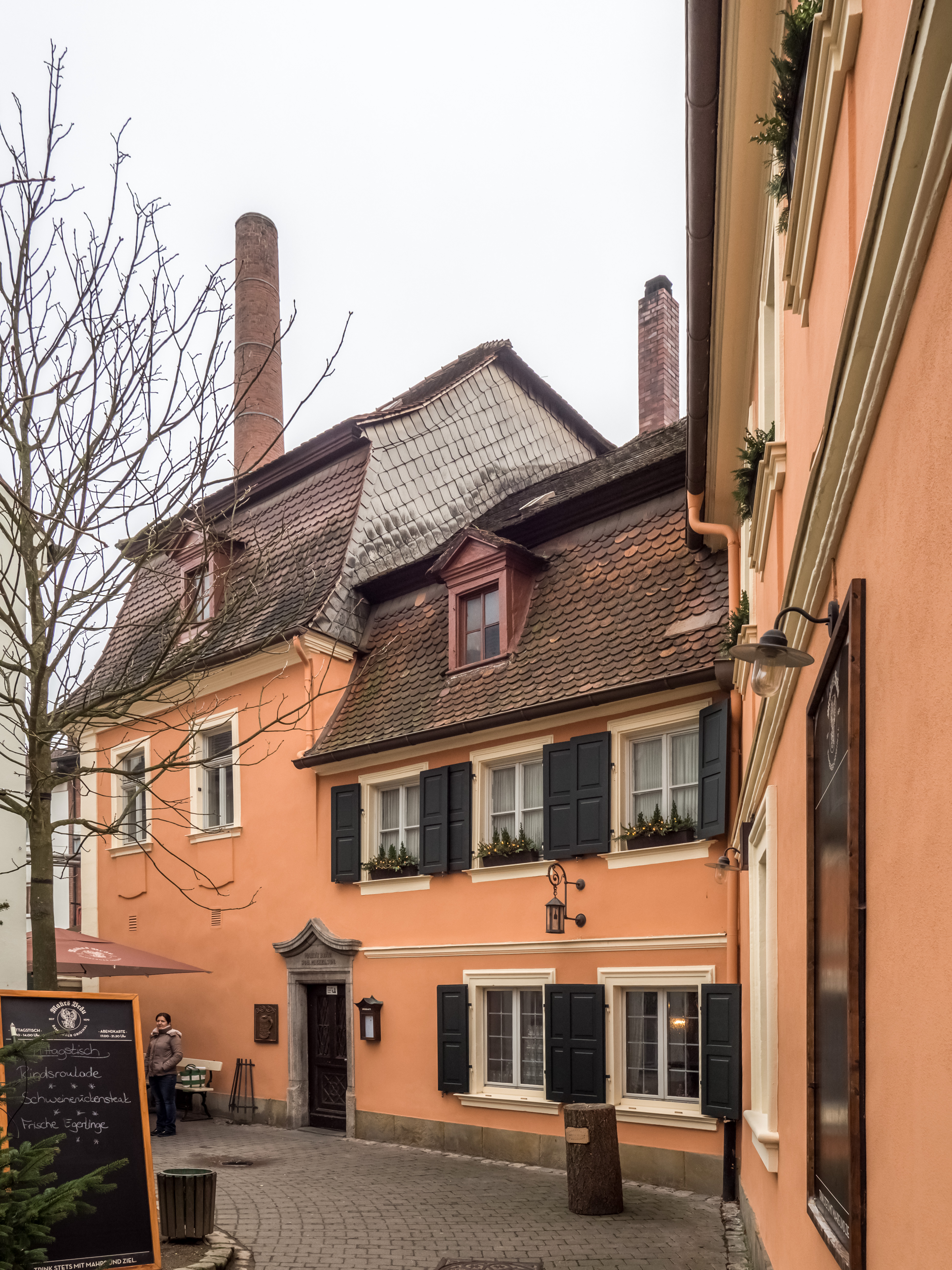 Brewery Inn Mahr in Bamberg (1812)